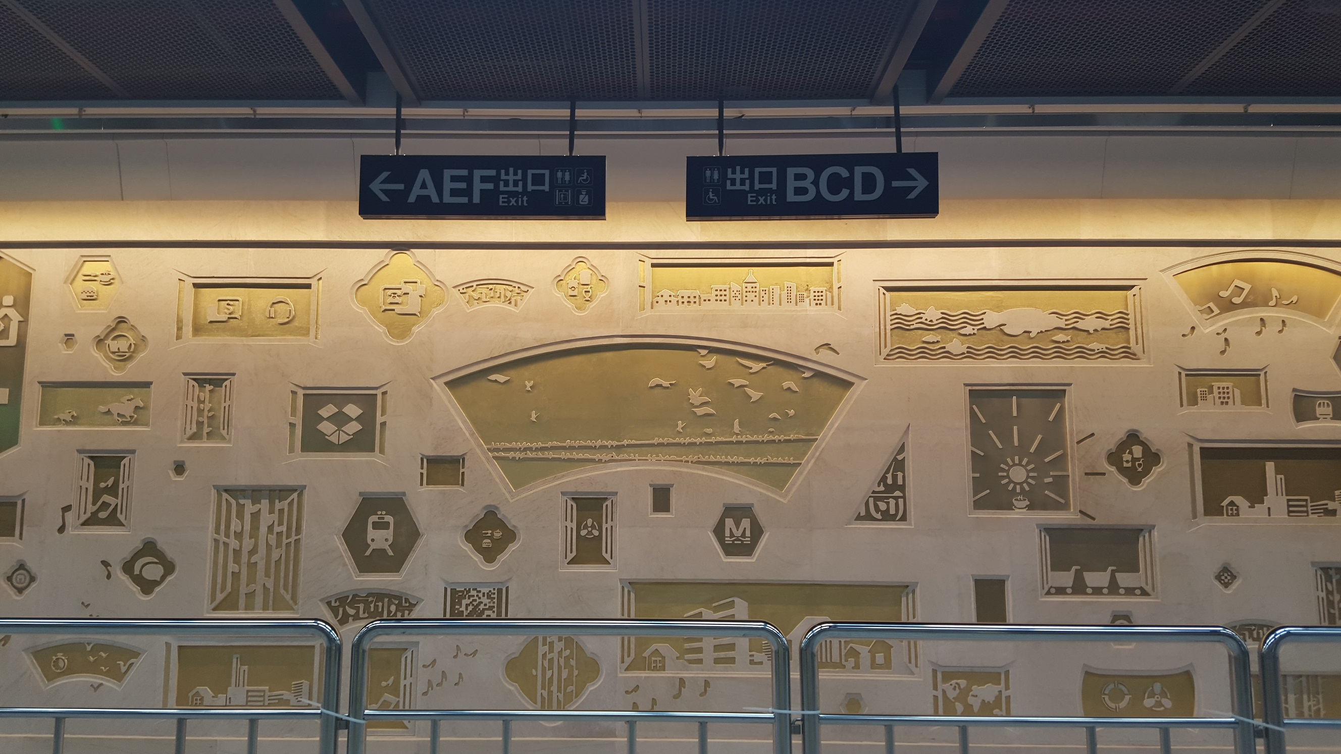 Art Wall in Hongtu Boulevard Station, Wuhan Metro